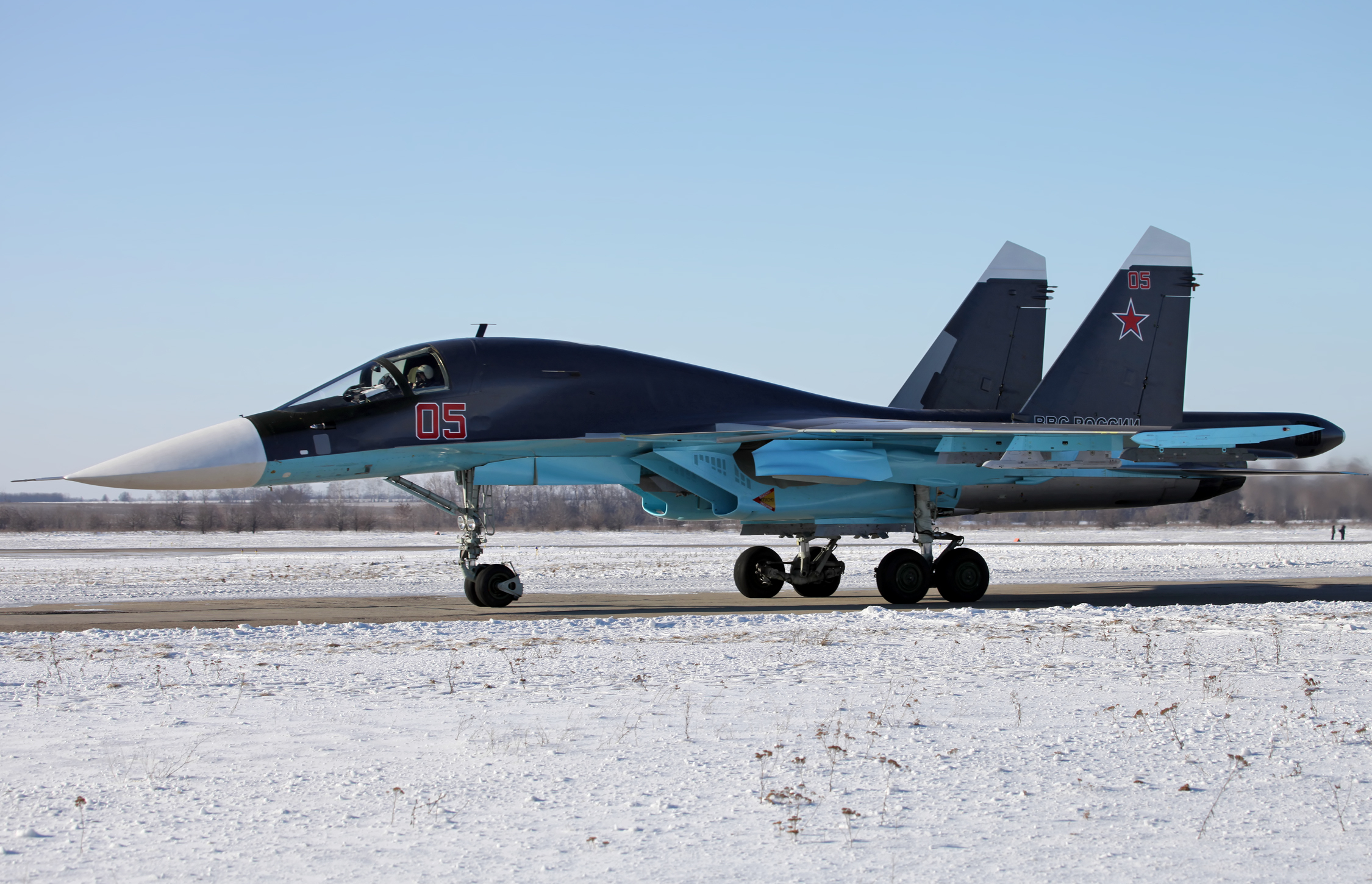 Sukhoi Su-34 fighter-bomber from Lipetsk airbase